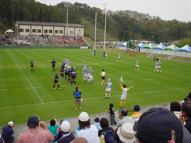 Christch Boys High School v. Nagasaki Kita High School at Sanix World Rugby Youth Tournament, Global Arena, 2006